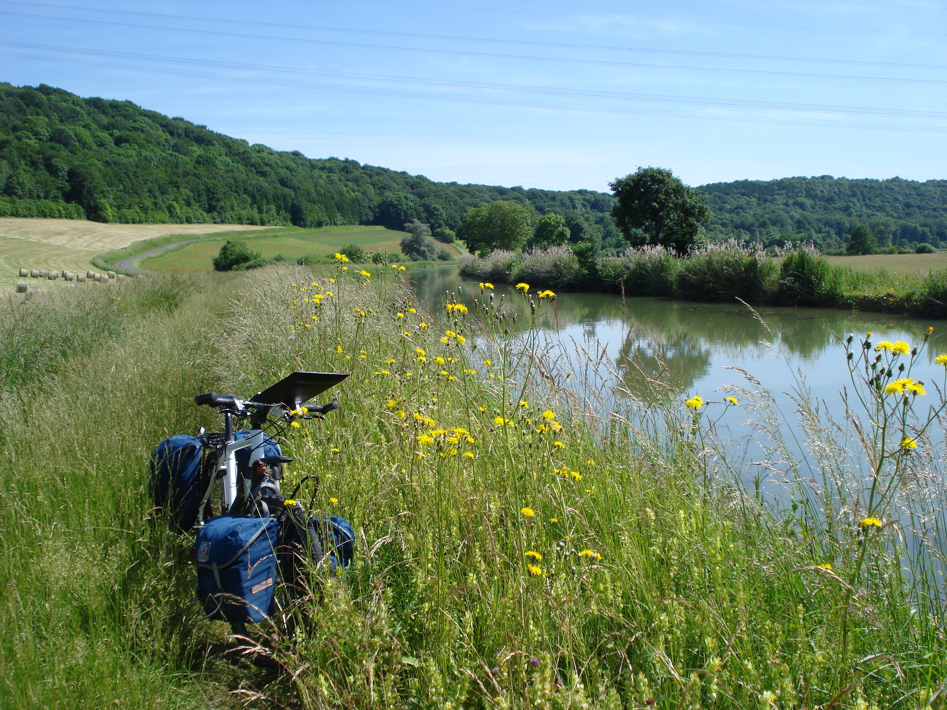 Canal des Ardennes à Omicourt